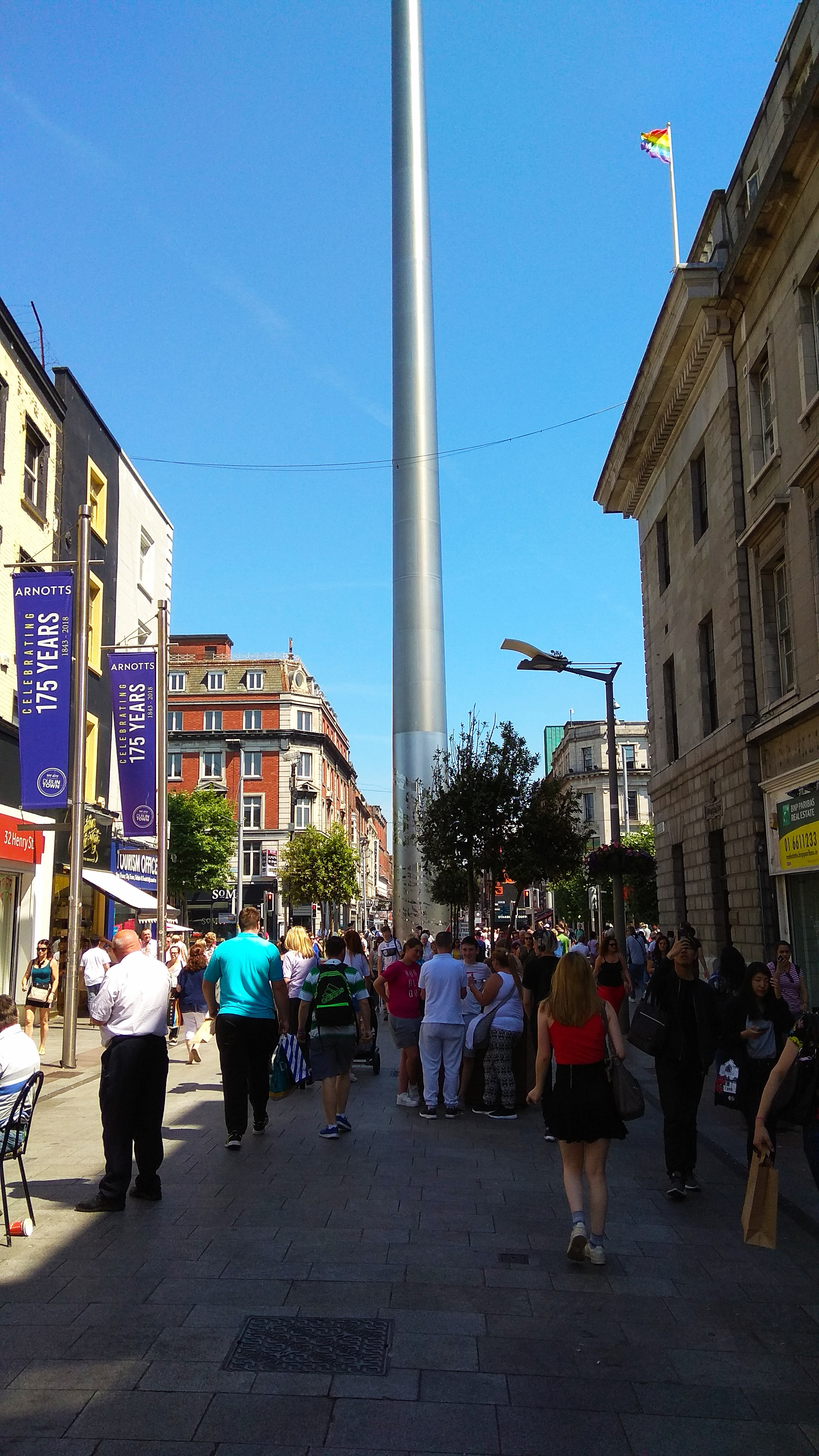 Henry Street, Dublin